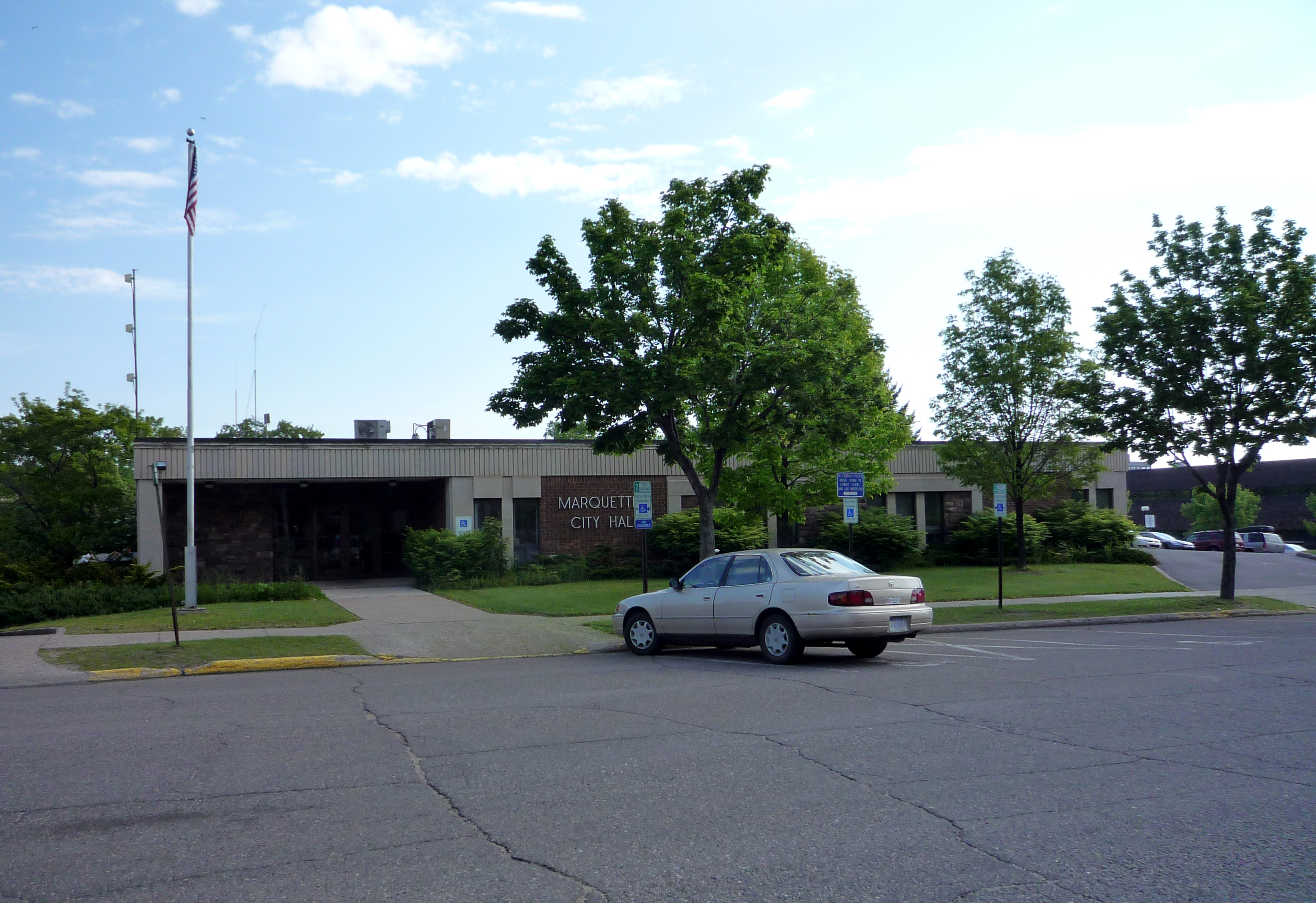 City Hall, Marquette, Michigan, USA.